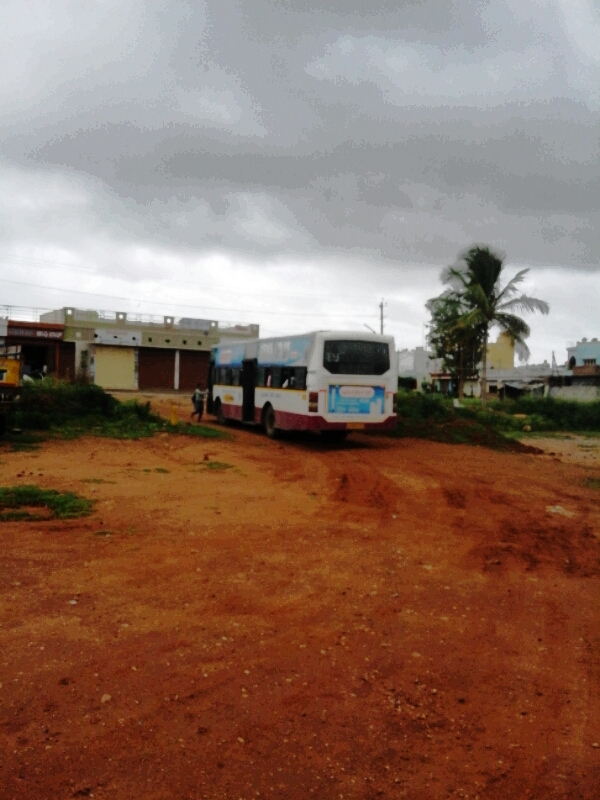 Mysore city, Mysore district, Karnataka province, India.